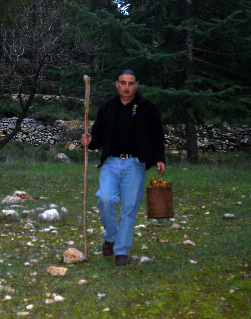 Moshe Basson Picking Mushrooms in Jerusalem Forest